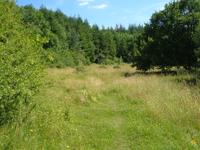 Quants Nature Reserve: "Quants Nature Reserve. Hidden within steep woods on the north-facing slopes of the Blackdown Hills, this meadow forms part of Quants SSSI, rich in plants indicative of ancient woodland, butterflies and other fauna".